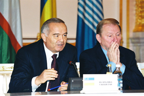 THE GRAND KREMLIN PALACE, MOSCOW. Presidents Islam Karimov of Uzbekistan and Leonid Kuchma (right) of Ukraine during a news conference of CIS leaders after their summit.